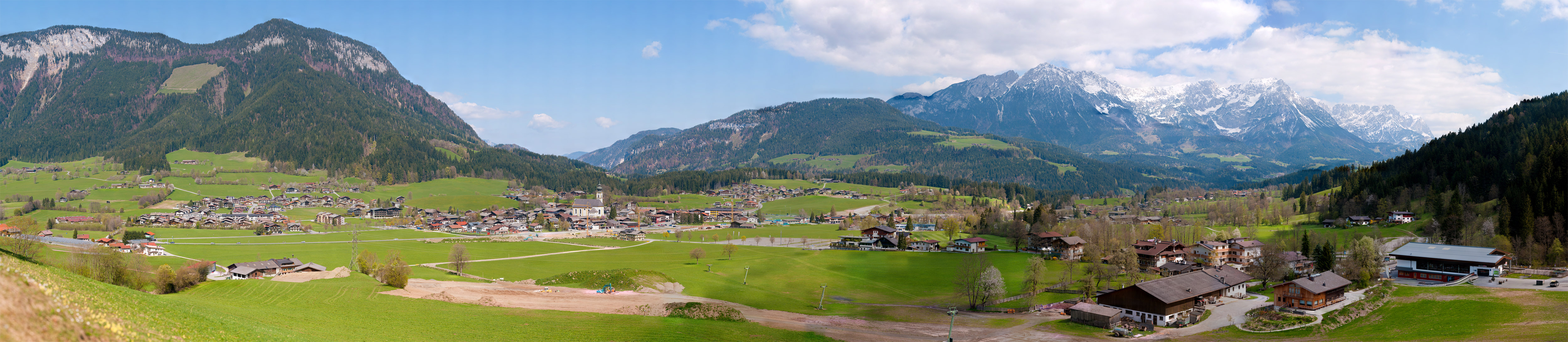 View onto Söll. Full Resolution image (221.087x48.229) is available at